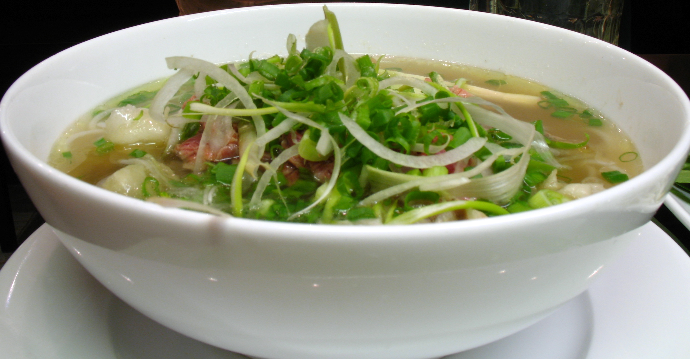 Pho! This was delicious and super cheap (around 150 yen). The whole meal would have cost the two of us less than 1000 yen for three beers, two bowls of pho and a plate of spring rolls. And this place is expensive. Would you like to